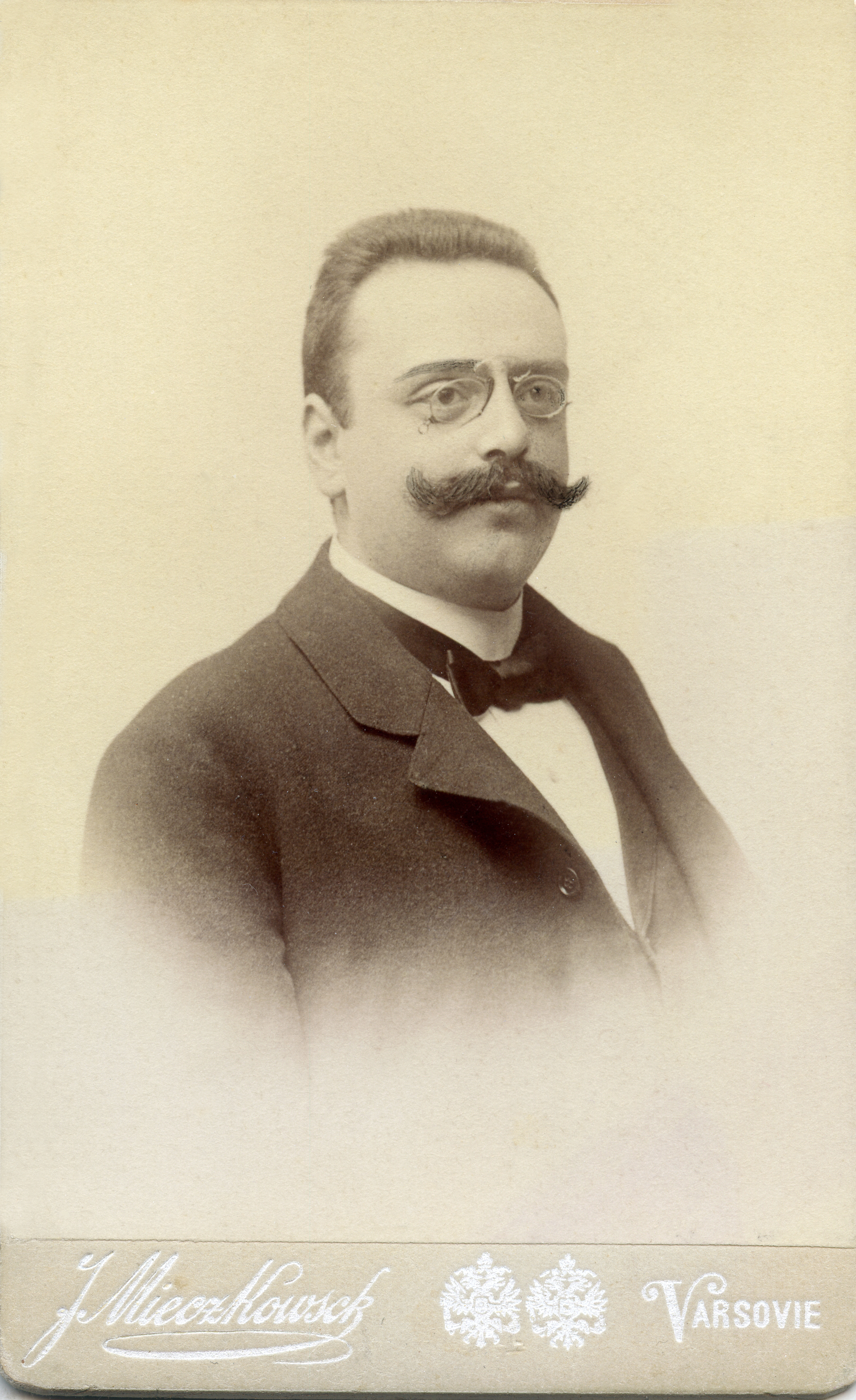 Riccardo Semadeni, son of Bernardo Semadeni, a confectioner of Swiss origin, the owner of the confectioner's shop and café "Pod Filarami" at the Theatre Square in Warsaw